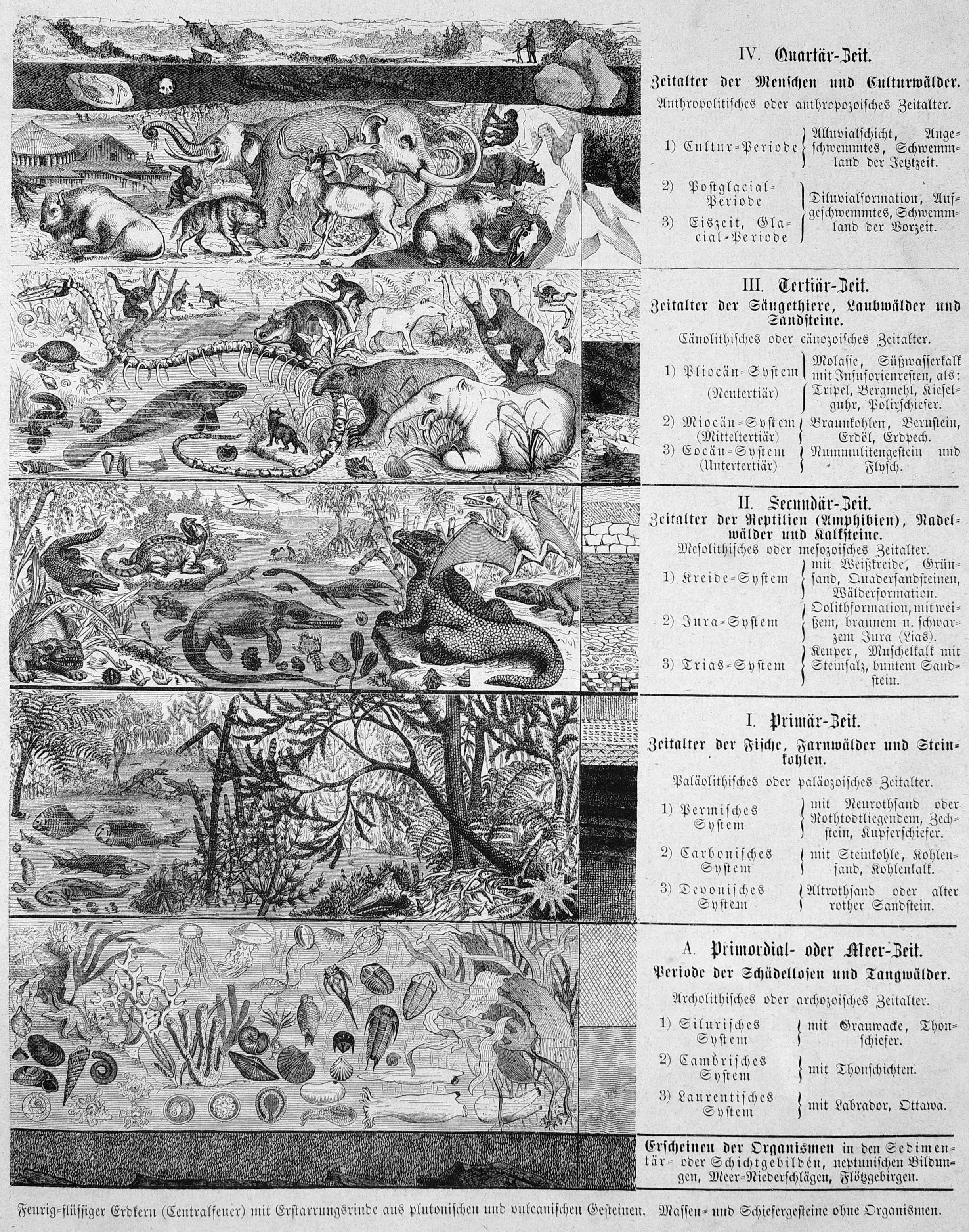 no caption